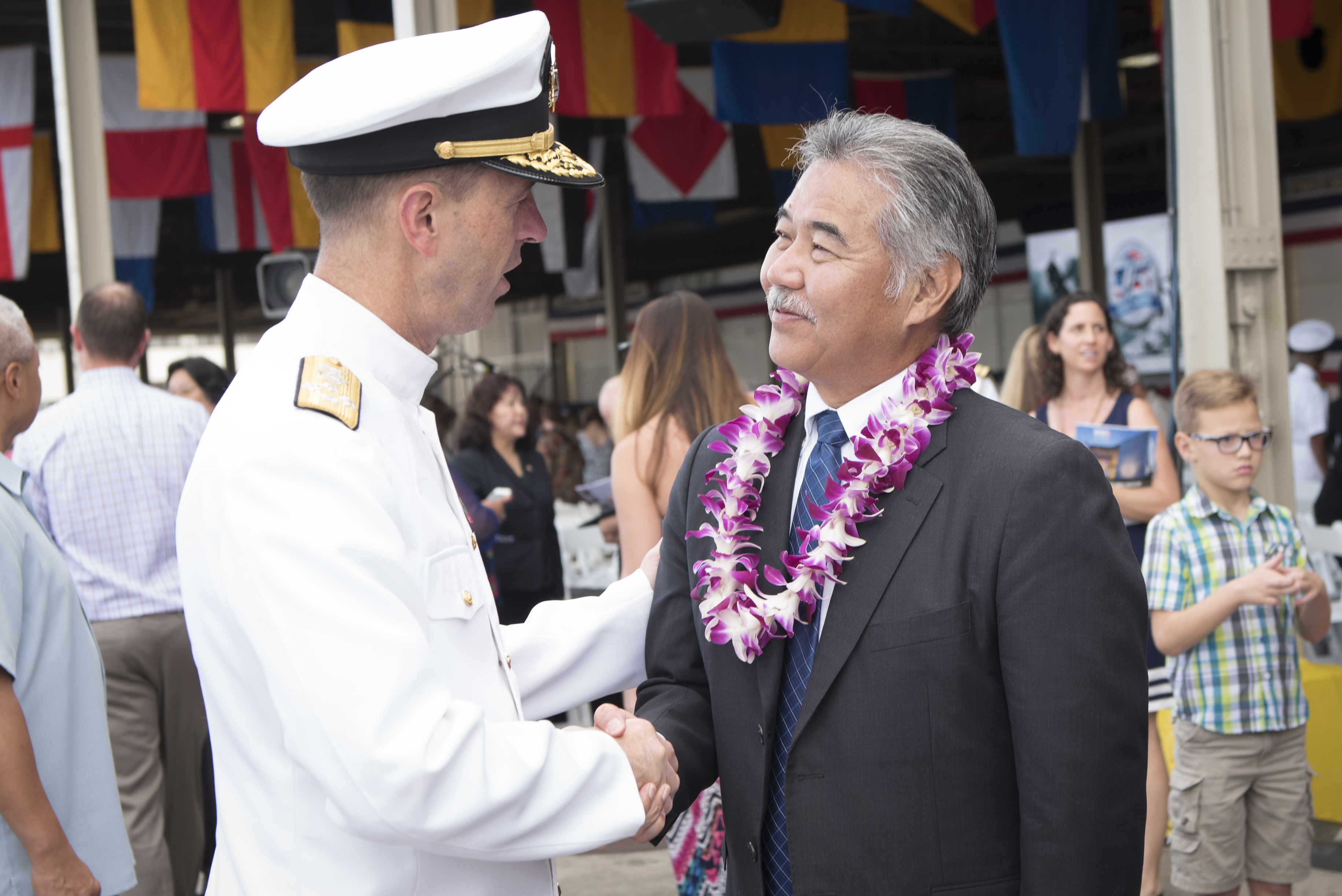 161207-N-AT895-171 PEARL HARBOR, (Dec. 7, 2016) Chief of Naval Operations (CNO) Adm. John Richardson attends the 75th Commemoration Event of the attacks on Pearl Harbor and Oahu. The 75th commemoration, co-hosted by the U.S. Military, the National Park Service and the State of Hawaii, provided veterans family members, service members and the community a chance to honor the sacrifices made by those who were present Dec. 7, 1941, as well as throughout the Pacific theater. (U.S. Navy photo by Petty Officer 1st Class Nathan Laird/Released)